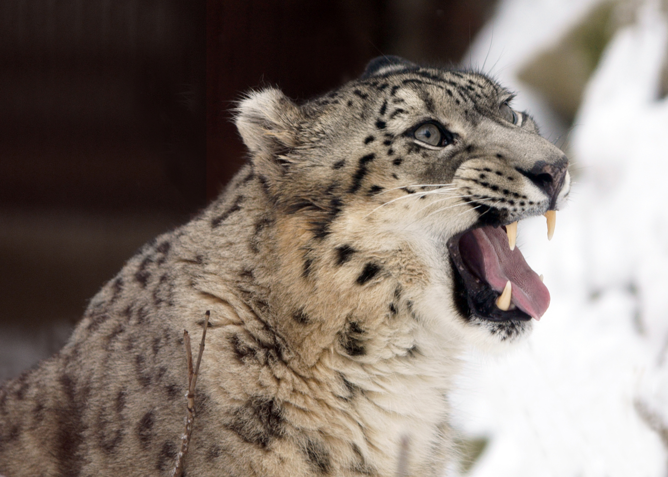 snow leopard